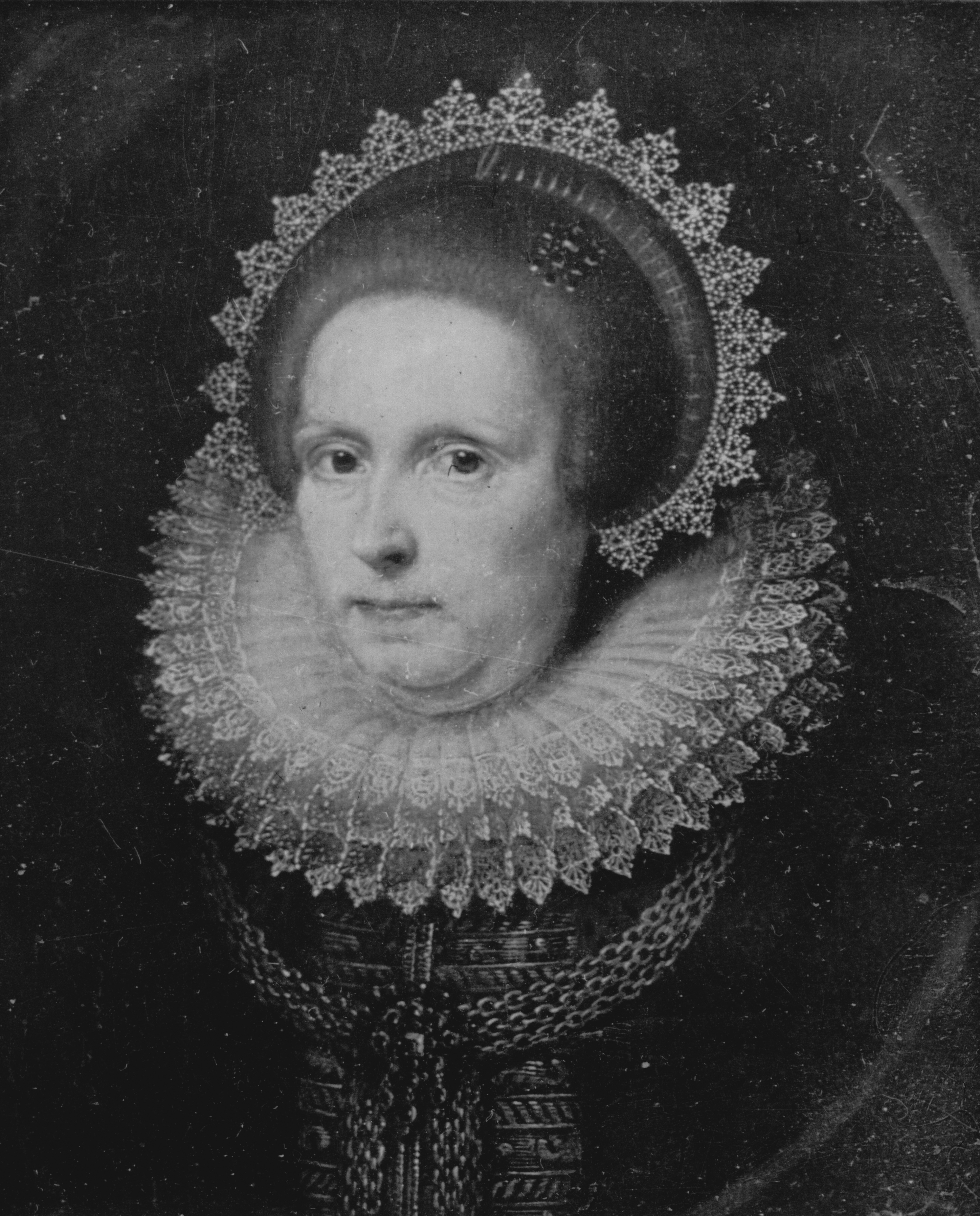 Margaretha van Mechelen (circa 1580-1662) oil on panel ? x ? cm 1582 - 1641